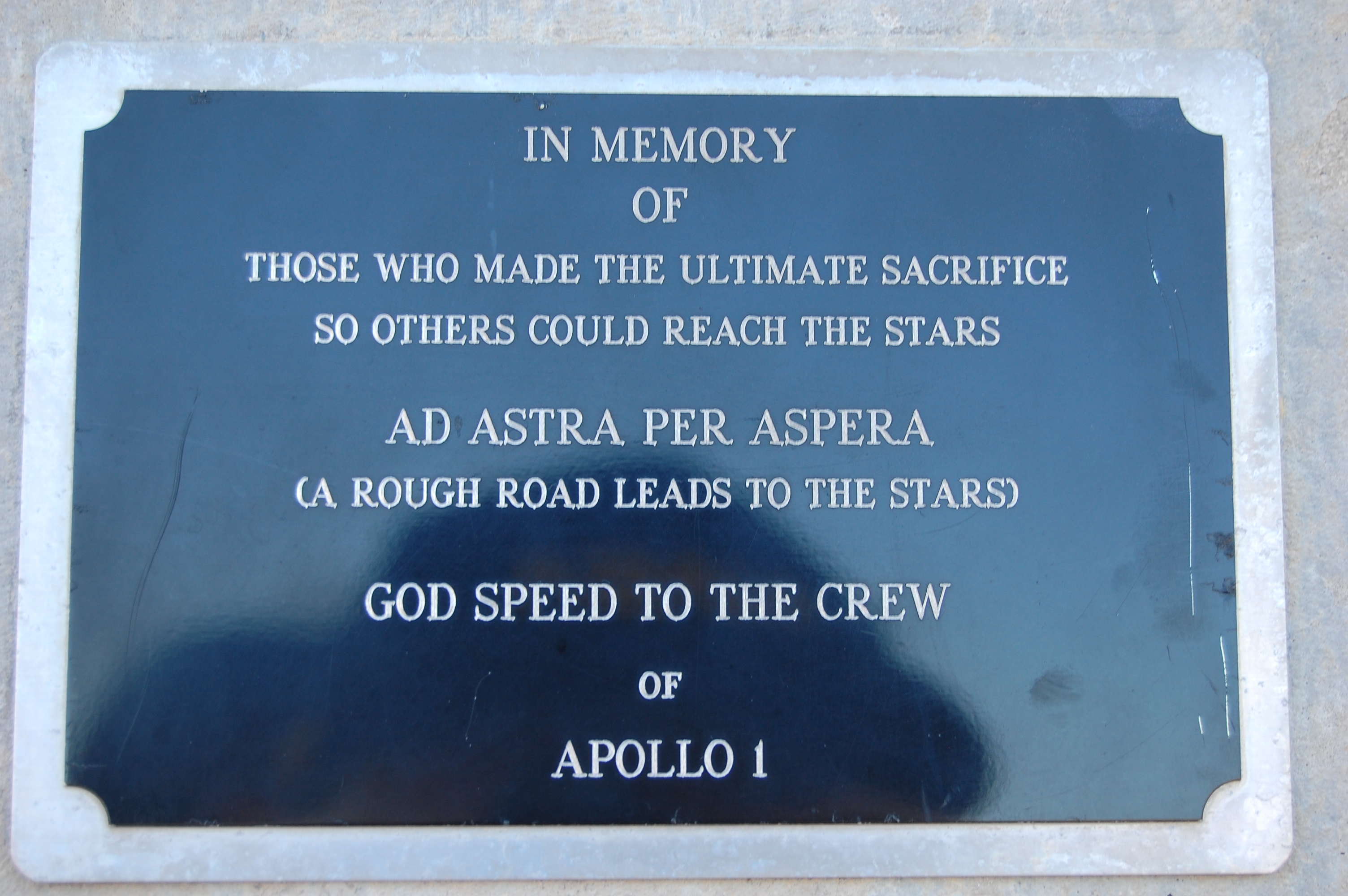 small plaque at Cape Canaveral Air Force Station Launch Complex 34